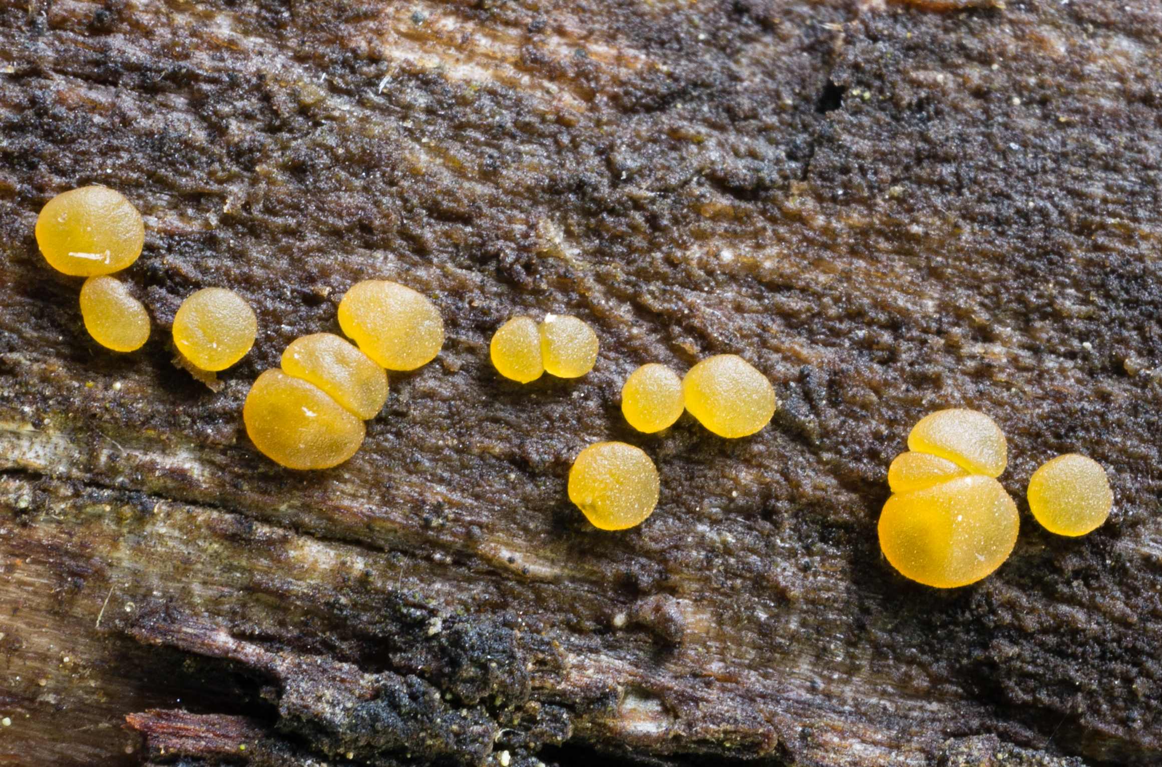 Dacrymyces variisporus McNabb Image location: Kelley Point Park, Portland, Oregon, USA Jelly blobs, ~1 mm. On madrone branch. [Kelley Point Mycoblitz] For more information about this, see the observation page at Mushroom Observer.